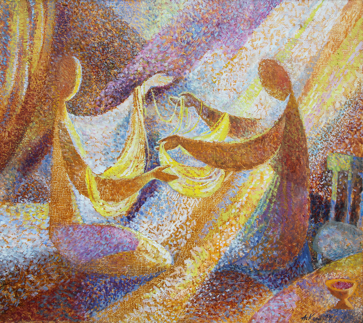 Andrey Korolchuk. Yarn. Oil on canvas, 70 х 80 cm, 1994.